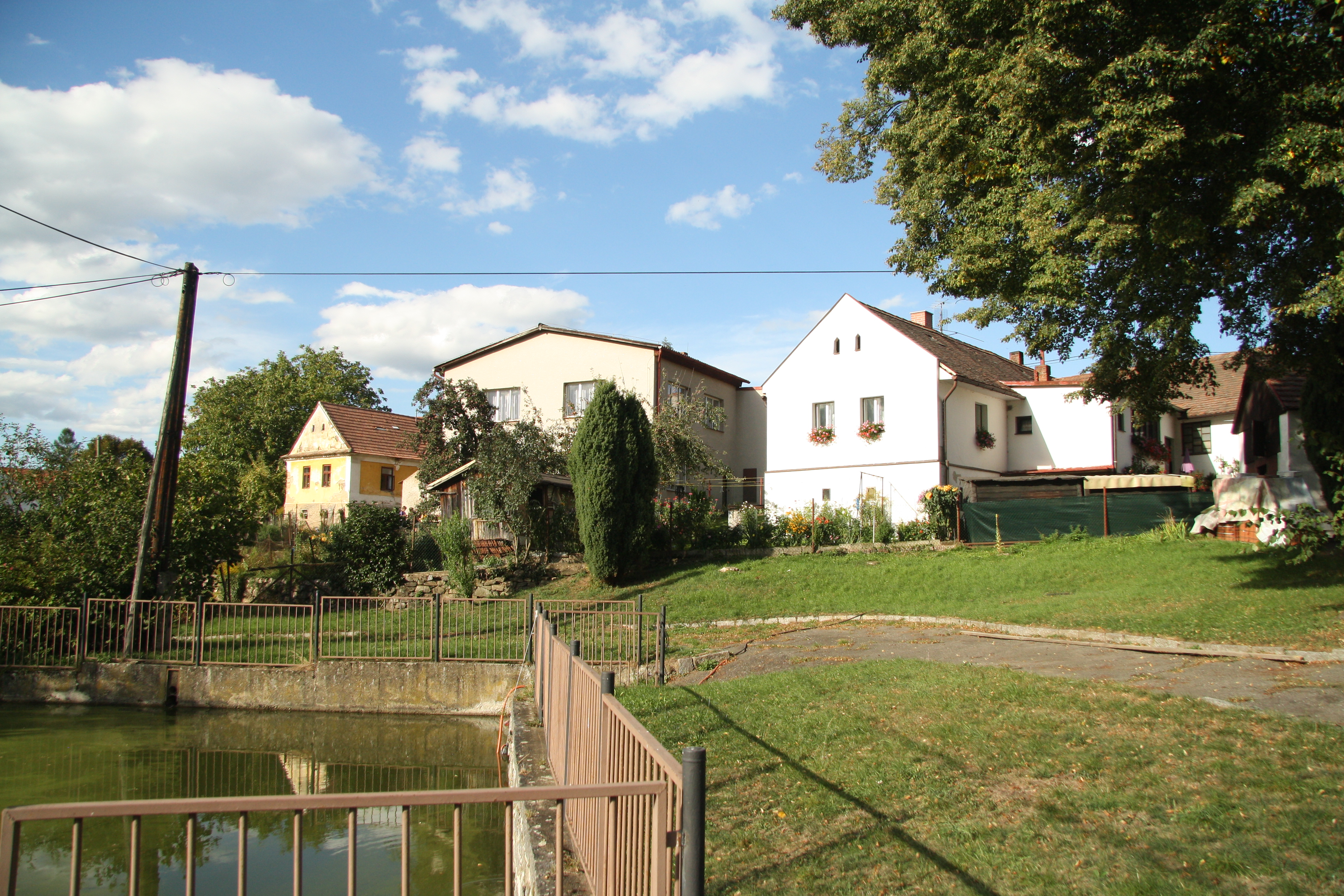 Center of Sestrouň, Sedlčany, Příbram District.